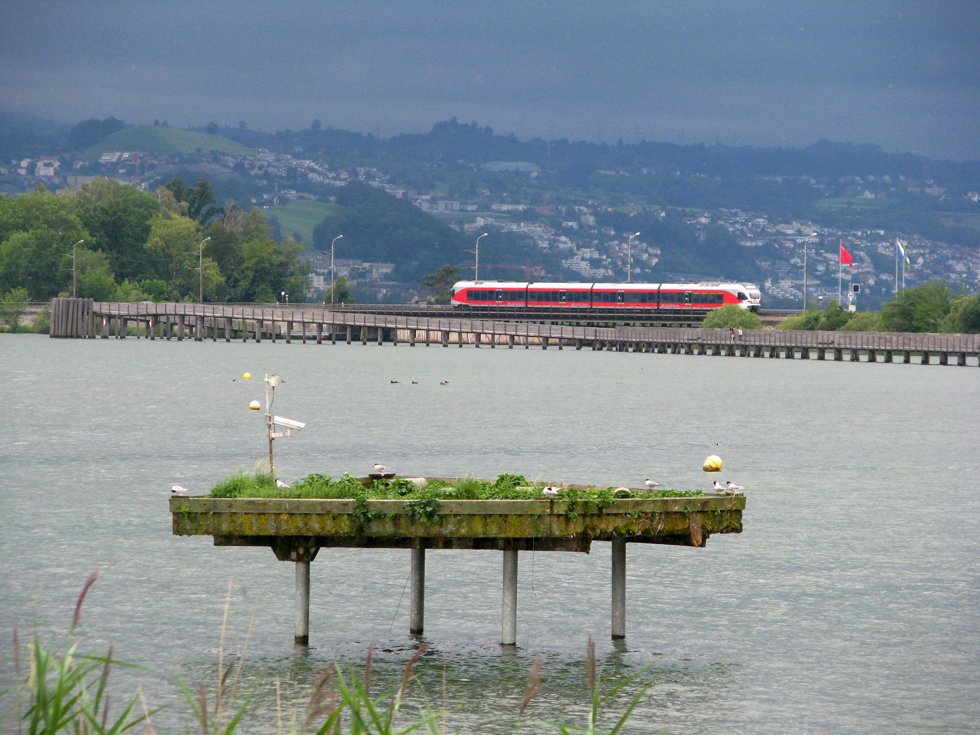 Pilgersteg (Pilgrim's bridge) Rapperswil-Hurden, crossing upper Lake Zurich, and Seedamm, as seen from Rapperswil (SG).